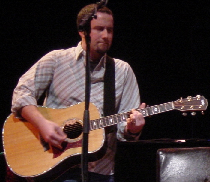 This is a cropped picture to show only Nathan Nockels. This is a retouched picture, which means that it has been digitally altered from its original version. Modifications: Cropped. The original can be viewed here: Watermark (band) 03948.JPG: . Modifications made by The Cross Bearer.